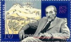 Stamp of Armenia